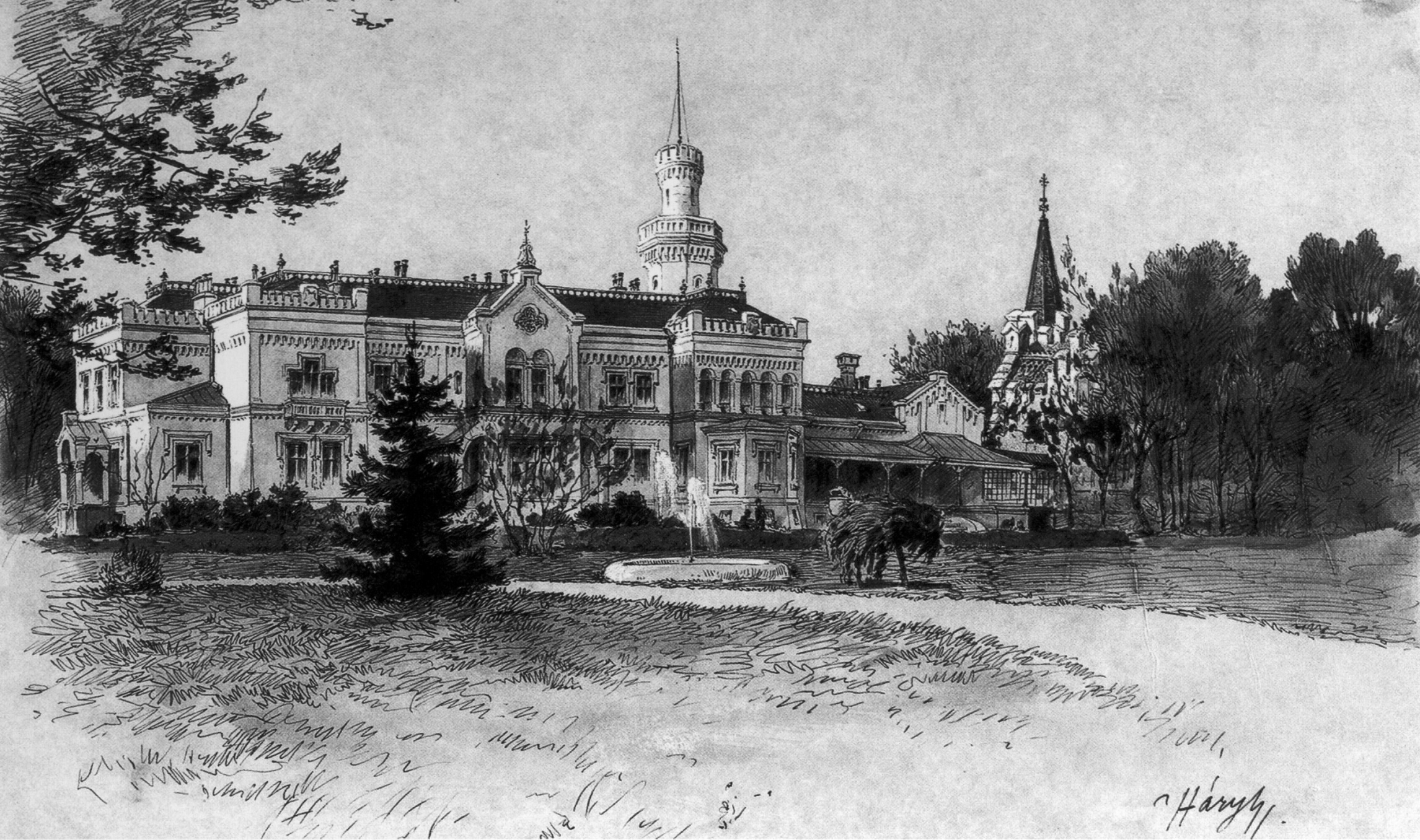 Zsombolya-Csitó, Csekonics castle. Demolished by the Csekonics in the 1930s.